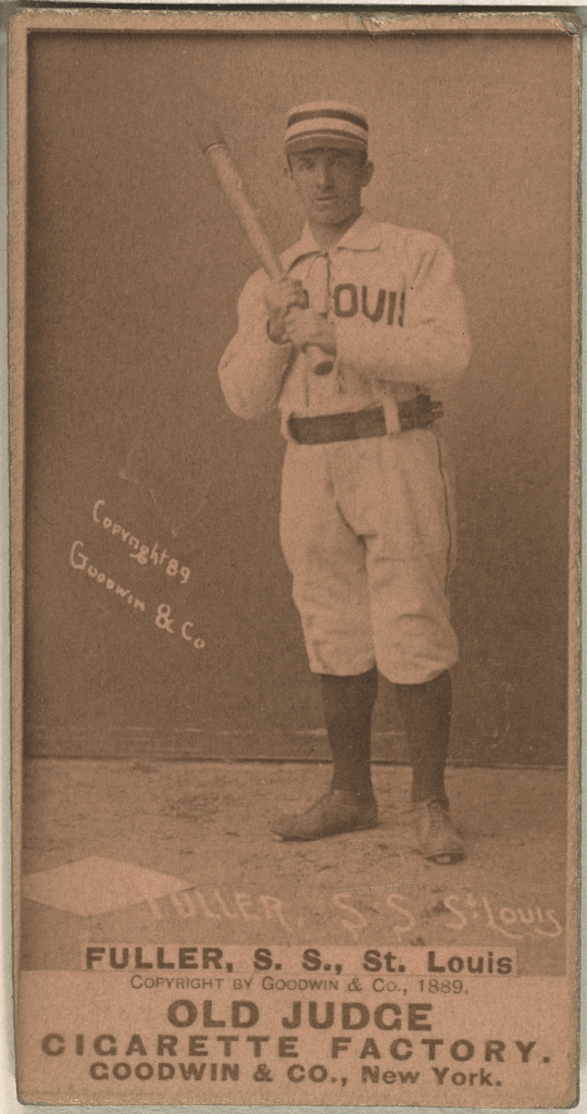 Title: Shorty Fuller, St. Louis Browns, baseball card portrait Abstract/medium: 1 photographic print : albumen.